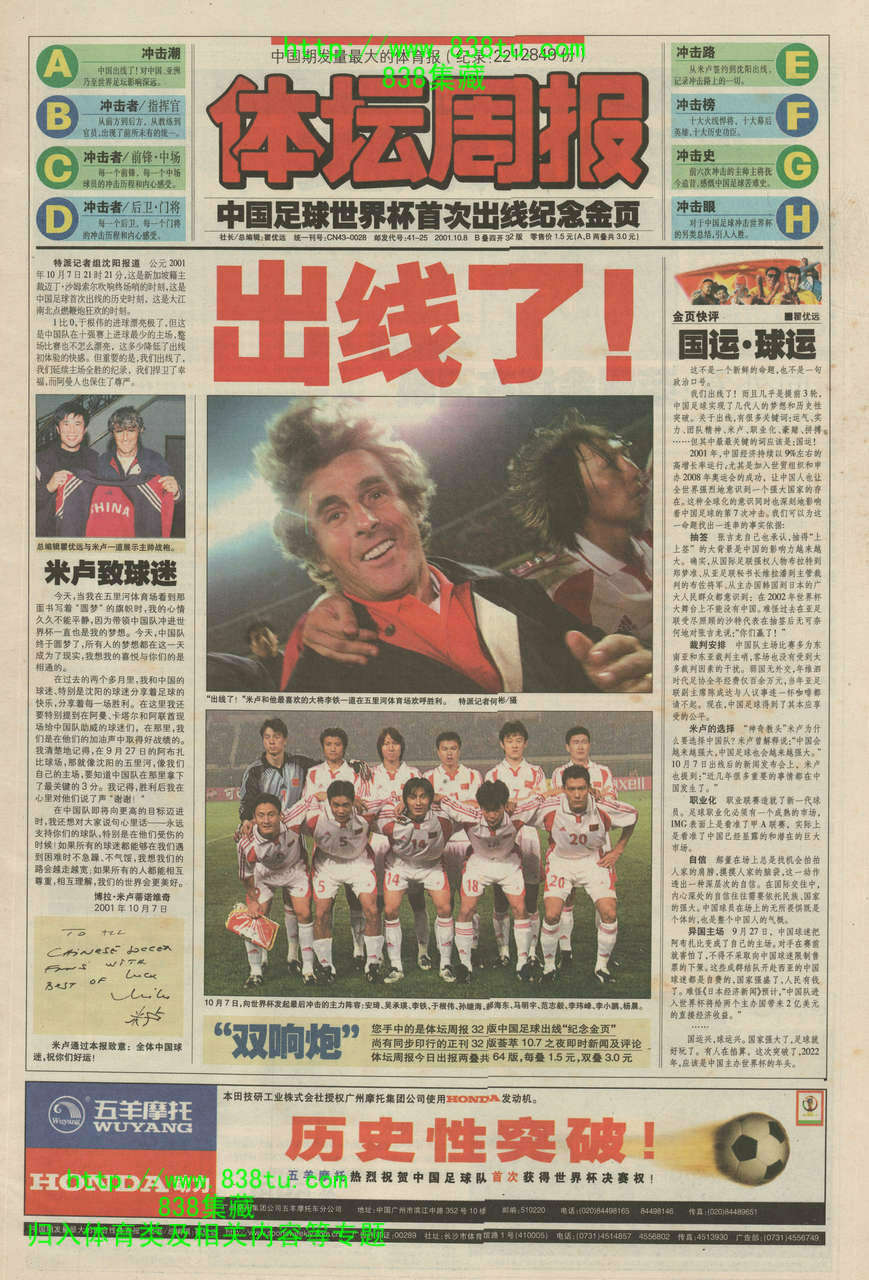 The copyright of Titan Sports Issue Oct. 8th, 2001